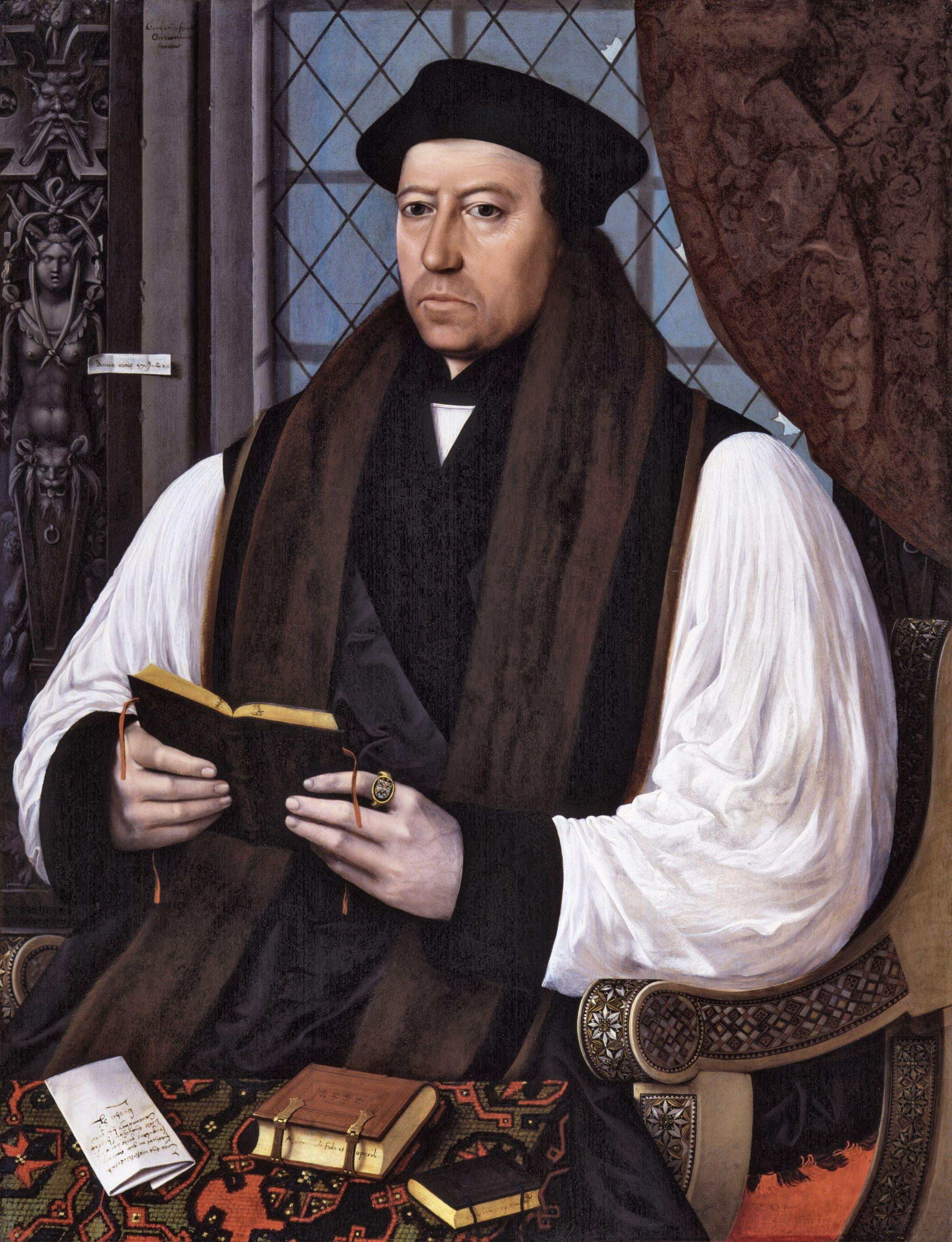 This is part of a set of images gathered by User:Dcoetzee from the National Portrait Gallery, London website using a special tool. All images in this batch have a known author, and have been manually examined for strong evidence that the author was dead before 1939, such as approximate death dates, birth dates, floruit dates, and publication dates.